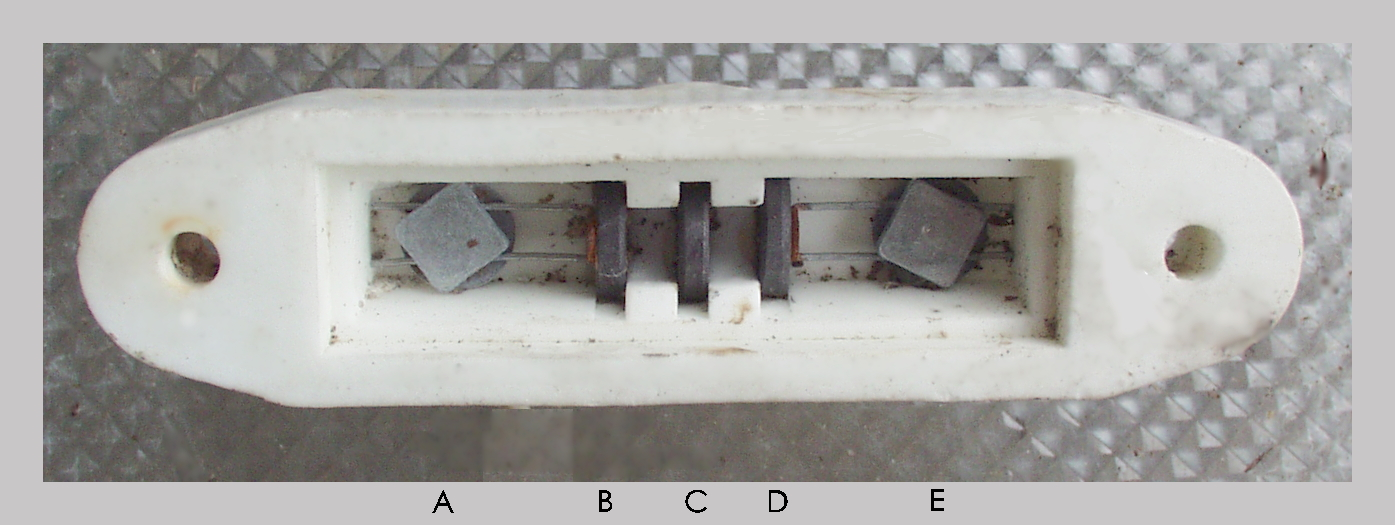 Photograph of lightning "arrester," a device to divert lightning strikes to ground (earth).